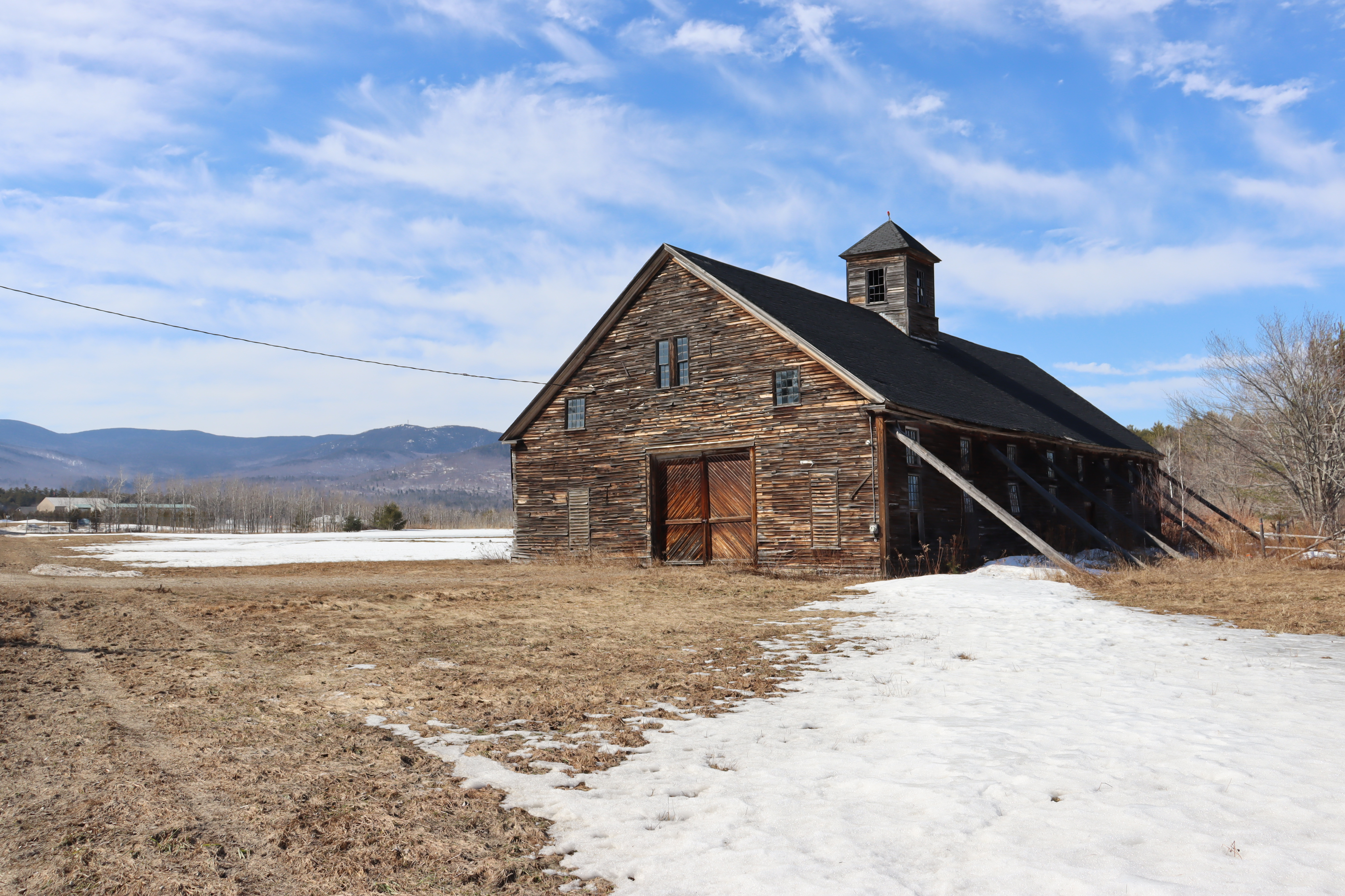 A barn in late March on the North Road in Bethel, Maine